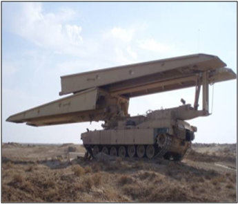 555 EN BDE conduct bridge building mission, Iraq circa 2008.